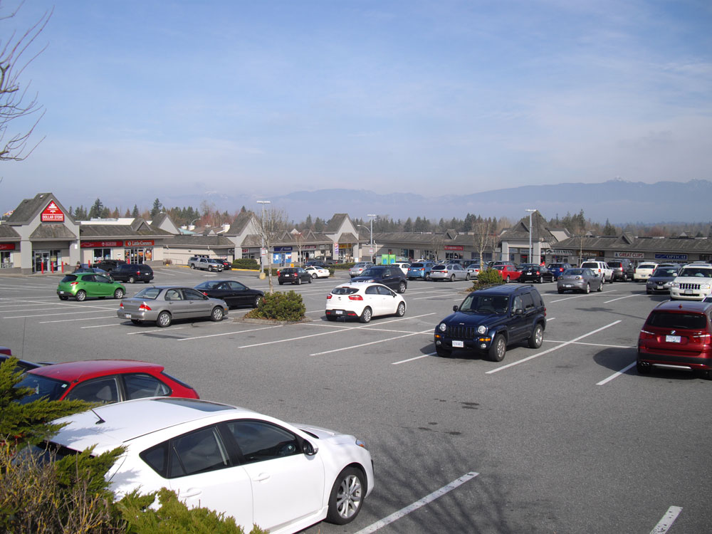 Town Centre in Walnut Grove Neighbourhood - Langley, BC